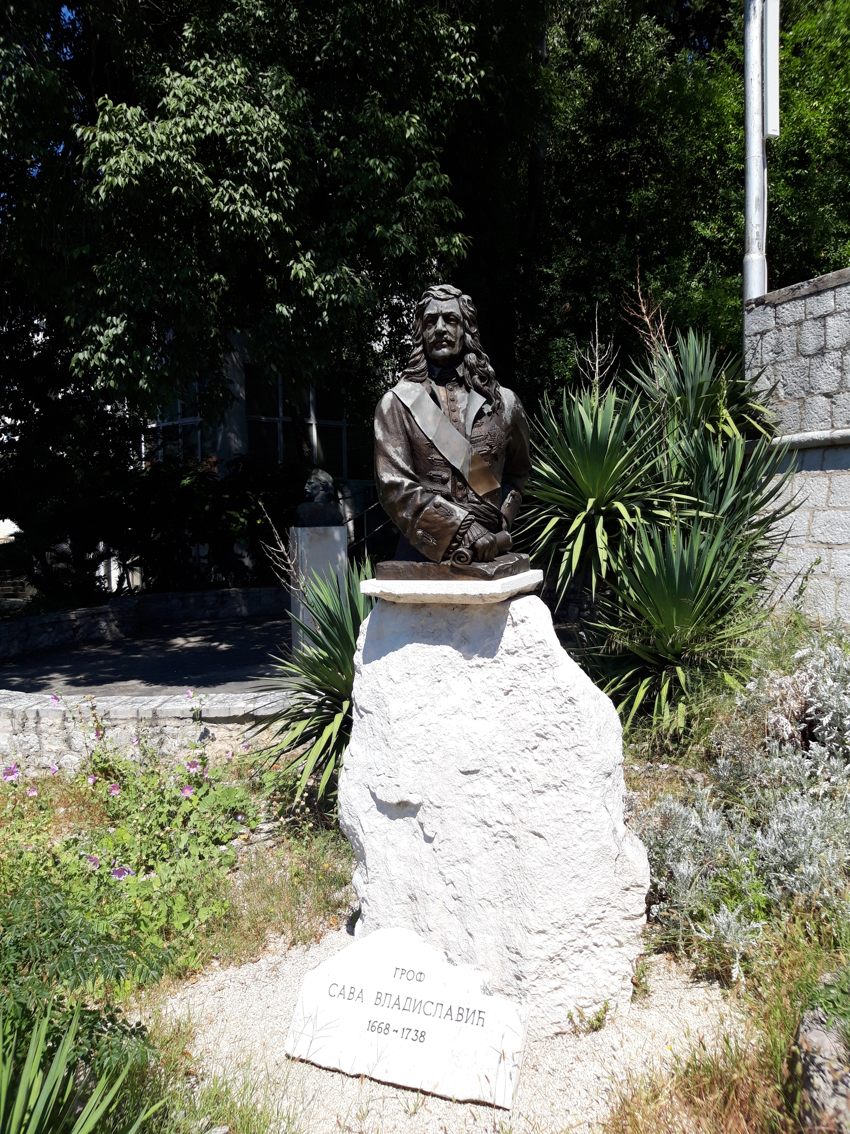 Count Sava Vladislavić, bust in Herceg Novi